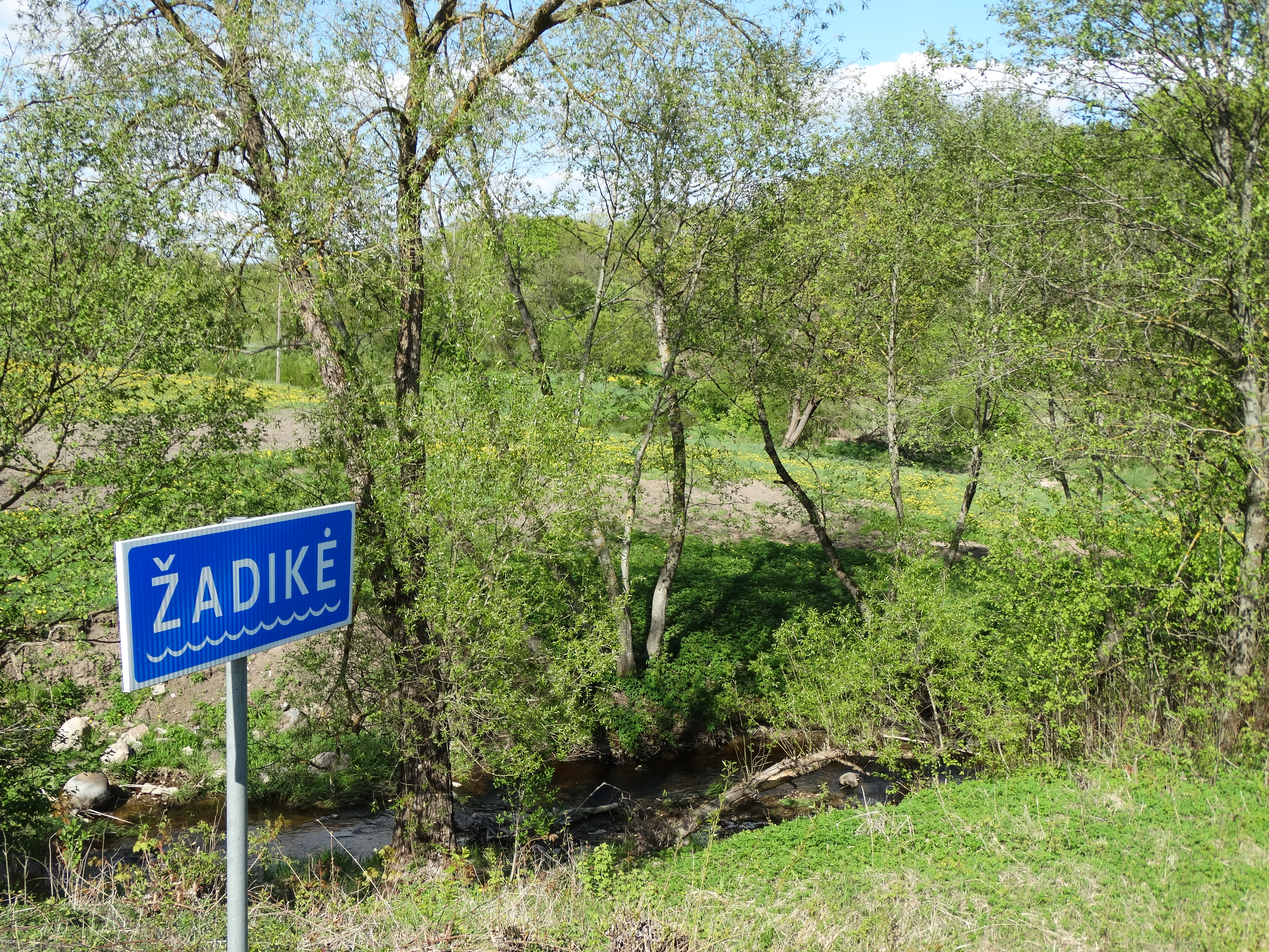 Žadikė stream, Pašušvys, Radviliškis District, Lithuania